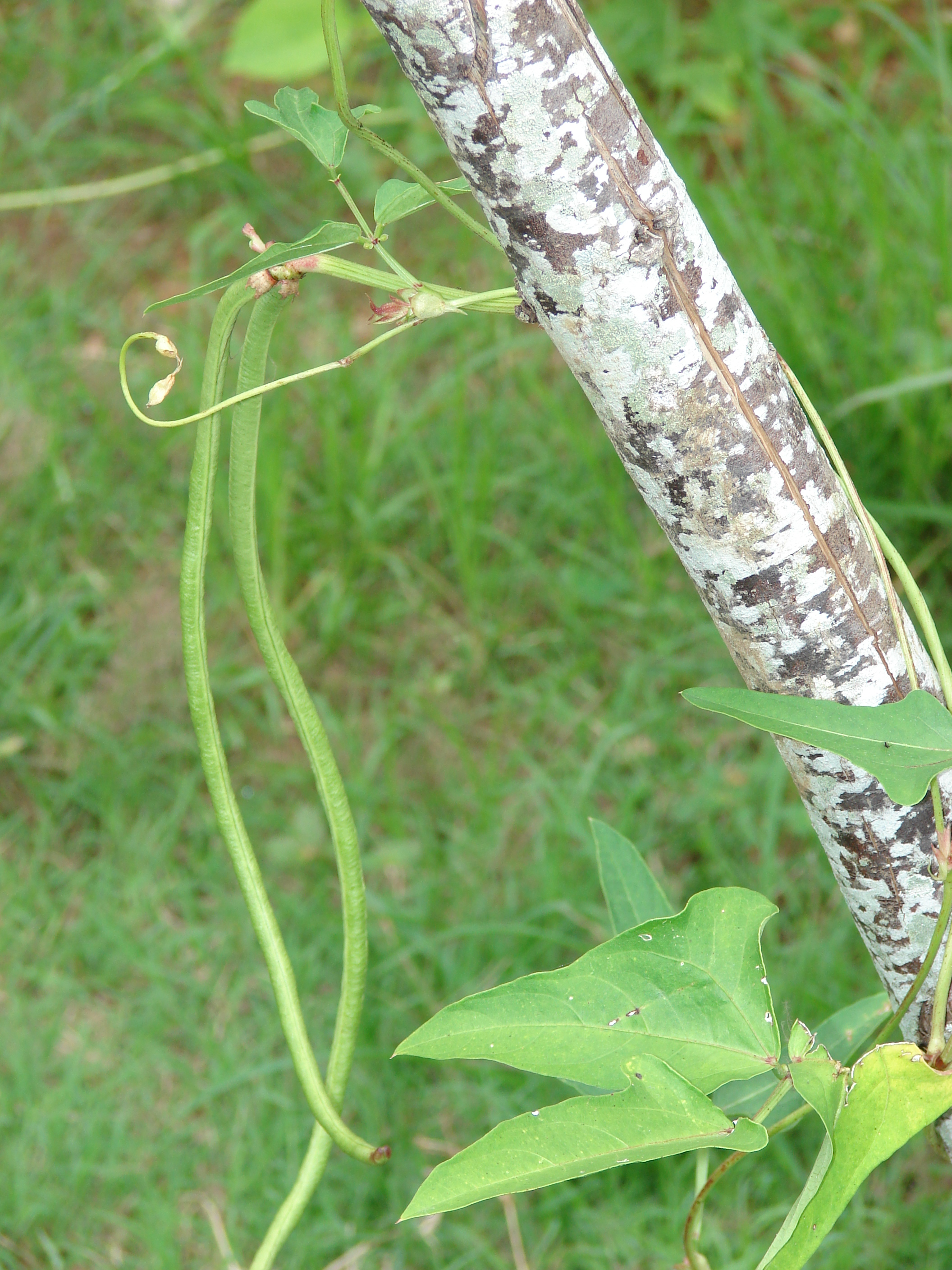 Vigna unguiculata subsp. sesquipedalis (twining habit and beans). Location: Midway Atoll, Community Garden Sand Island